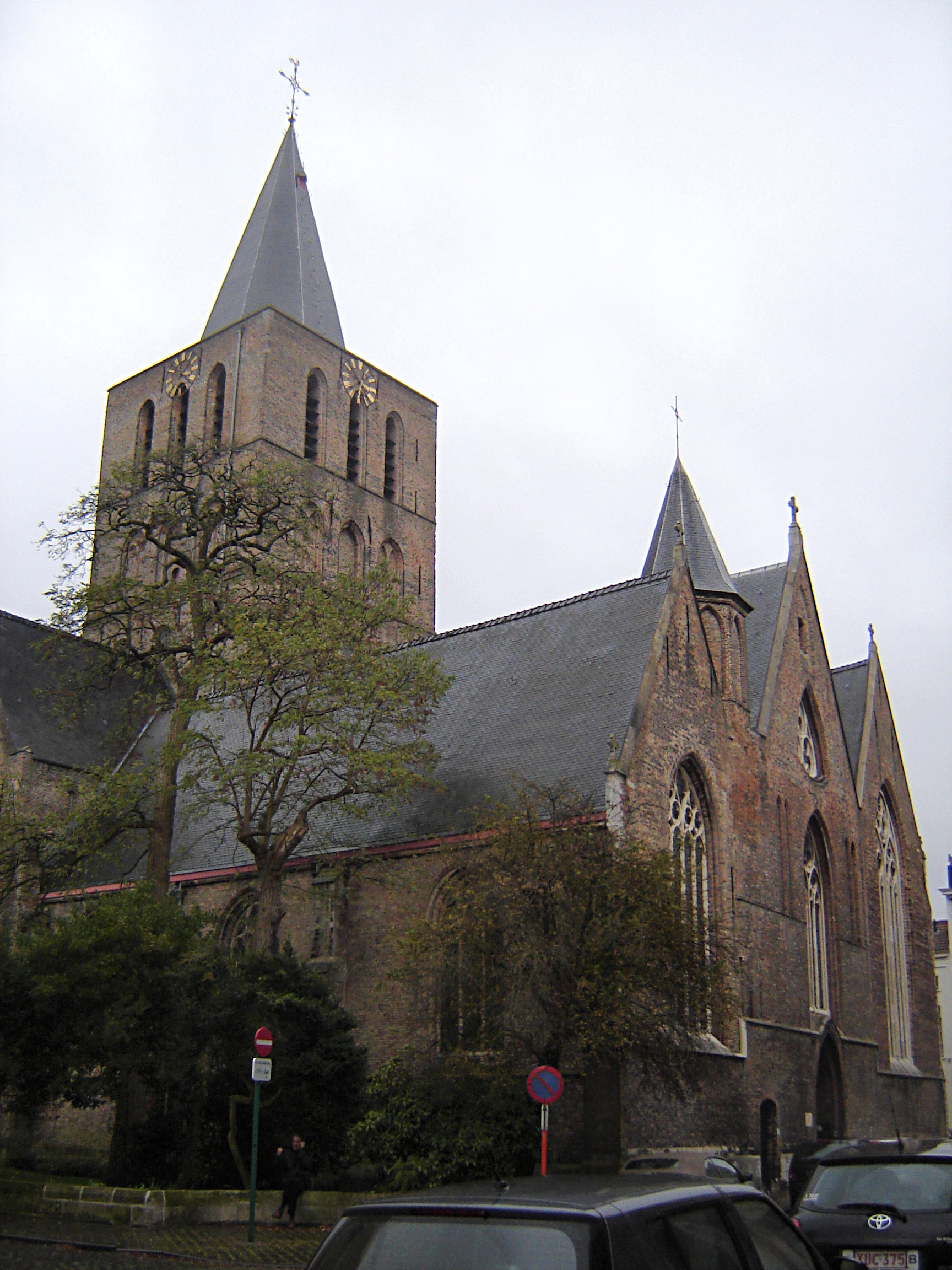 Church of Saint Giles in Brugge. Brugge, West Flanders, Belgium